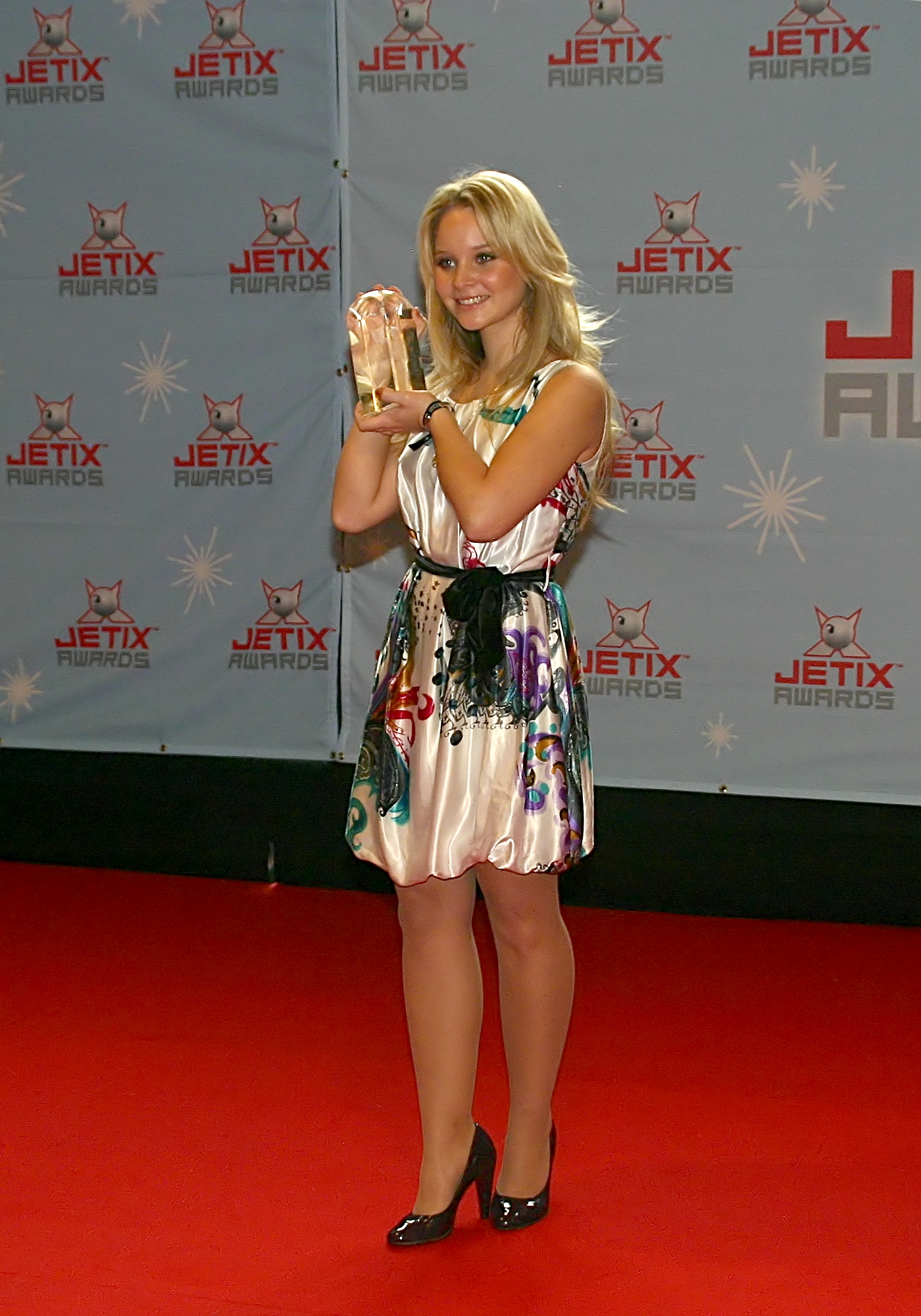 Sonja Gerhardt during the conferment of the JETIX Award at the youth fair "YOU", Berlin